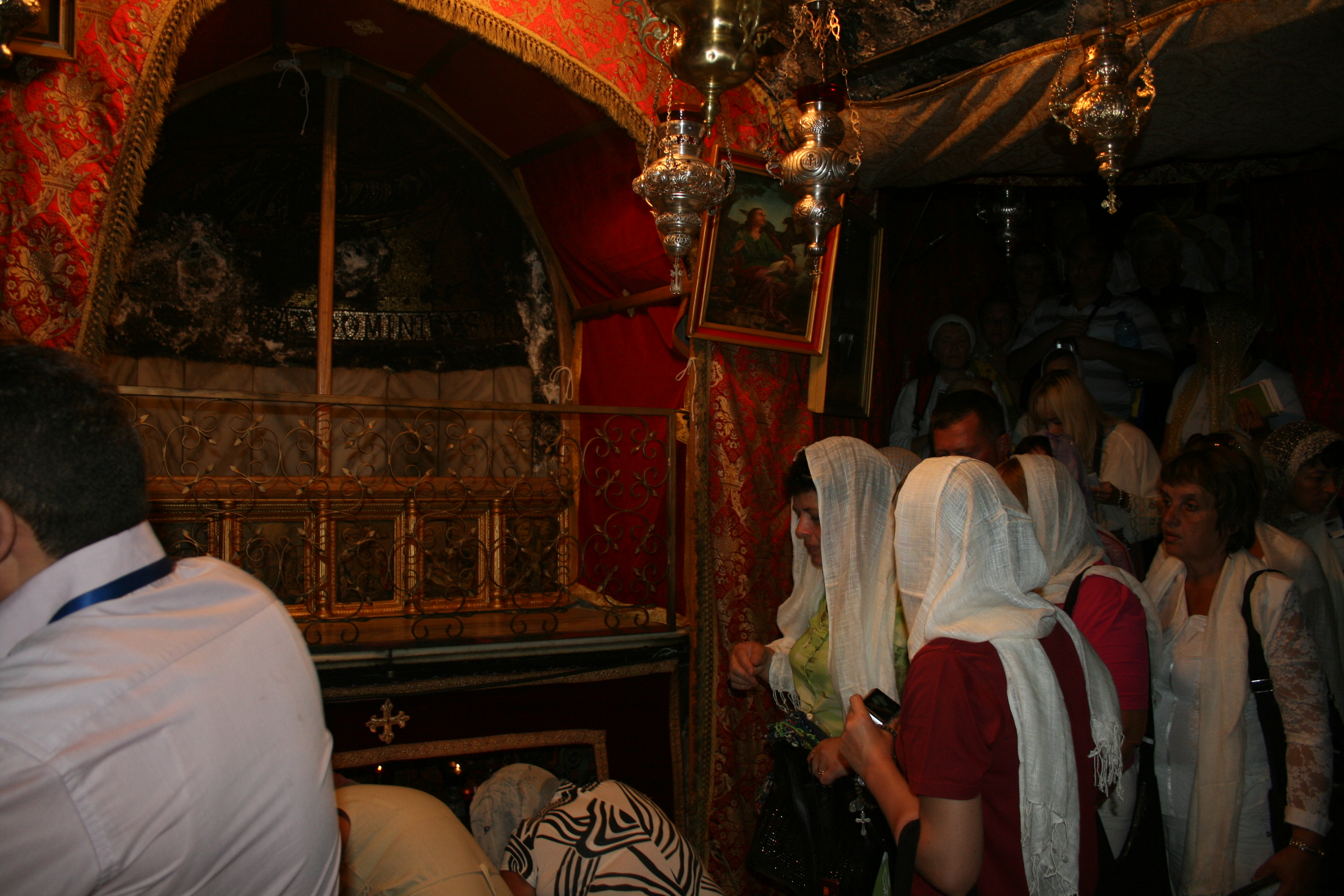 Grotto of the Nativity, Church of the Nativity, Bethlehem, Palestine